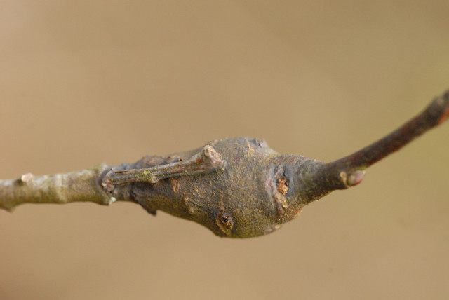 Euura atra from Commanster, Belgian High Ardennes .